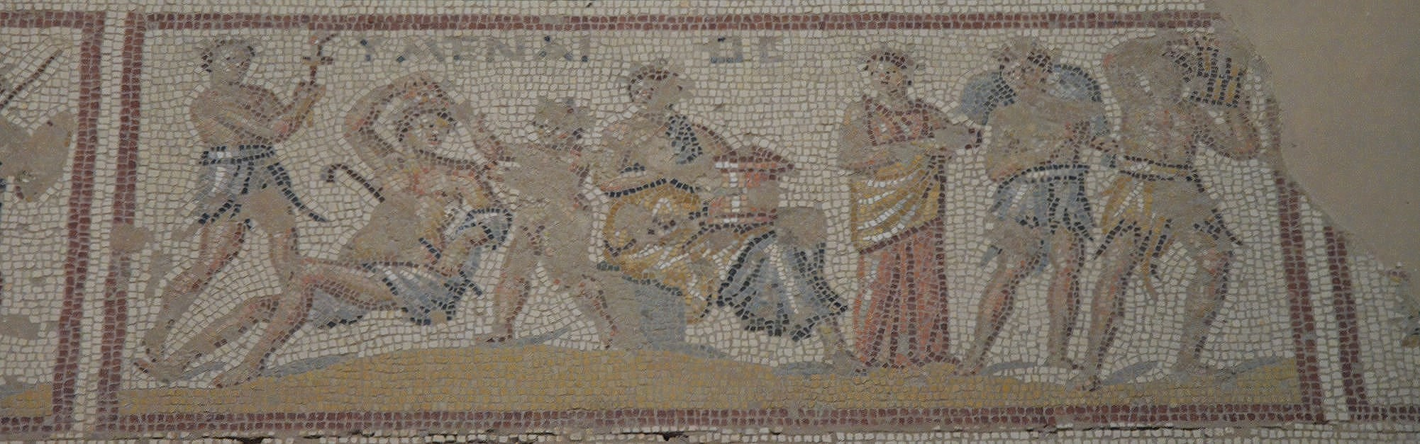 Dionysus met Ariadne, the daughter of the king of Crete, after her lover Theseus abandoned her on the island of Naxos. This scene depicts the nuptial banquet of Dionysus and Ariadne. The couple sits in the center, surrounded by the entourage. A youth crowns Dionysus with a wreath. A magnificent third century Roman villa was exposed on the western side of the acropolis of Sepphoris. This two-story residence contained many rooms, some paved with colorful mosaics, surrounding a central, atrium-type courtyard; columns supported its covered porticoes. The courtyard was connected by doors to a triclinium, the largest room in the building, paved with a magnificent mosaic floor. The decorated part of the floor formed the shape of the letter T, which enabled guests, reclining on couches on three sides of the room, to enjoy the many panels of the floor. They depict, in over twenty shades of colored tessarae, the life of Dionysus, Greek god of wine, and scenes of daily life connected with the rites of Dionysus.